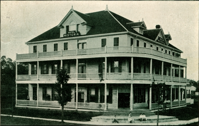 Wisteria Hotel in Winona, Mississippi